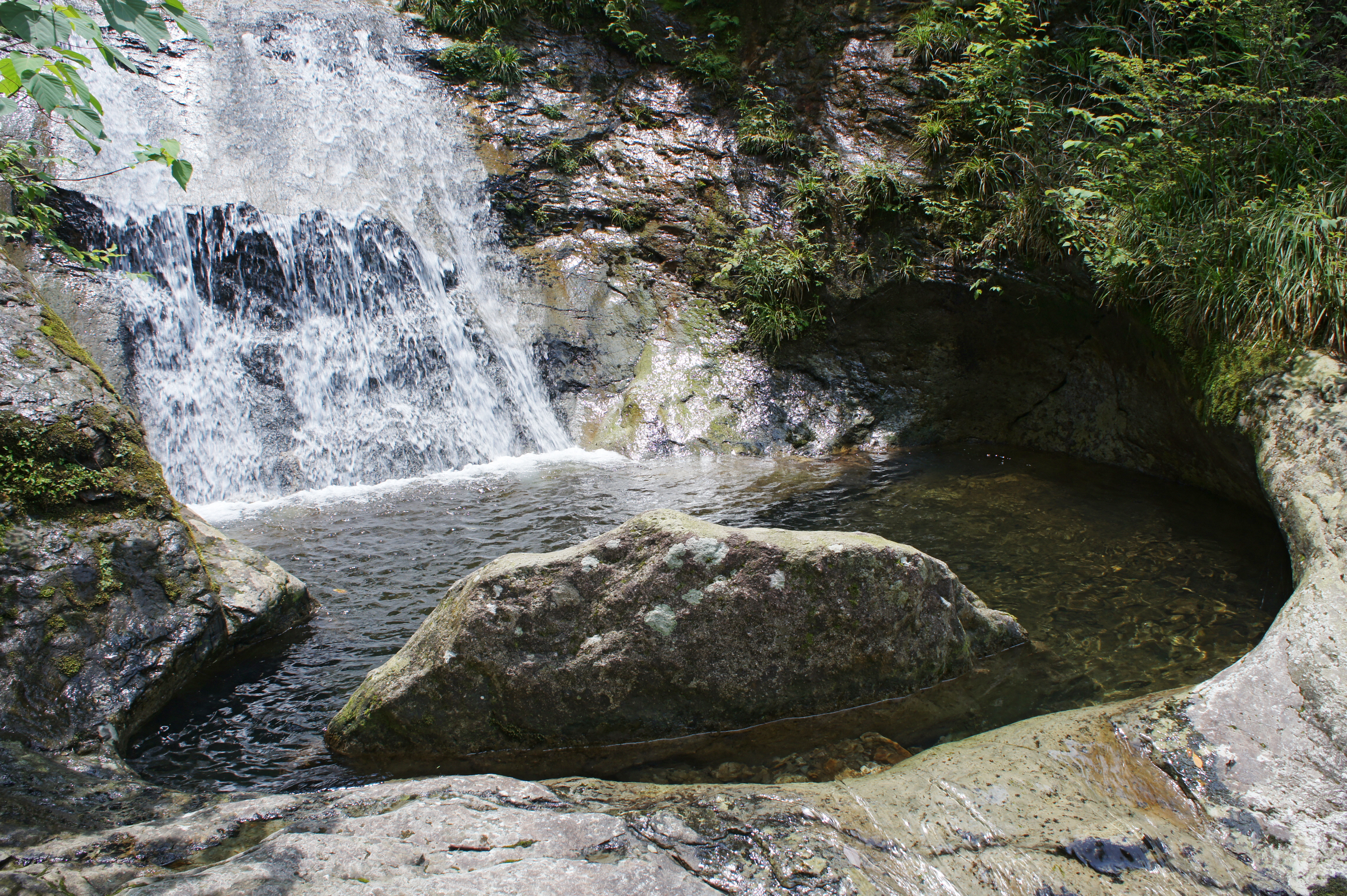 Komanotatedo of Shikagatsubo in Himeji, Hyogo prefecture, Japan.